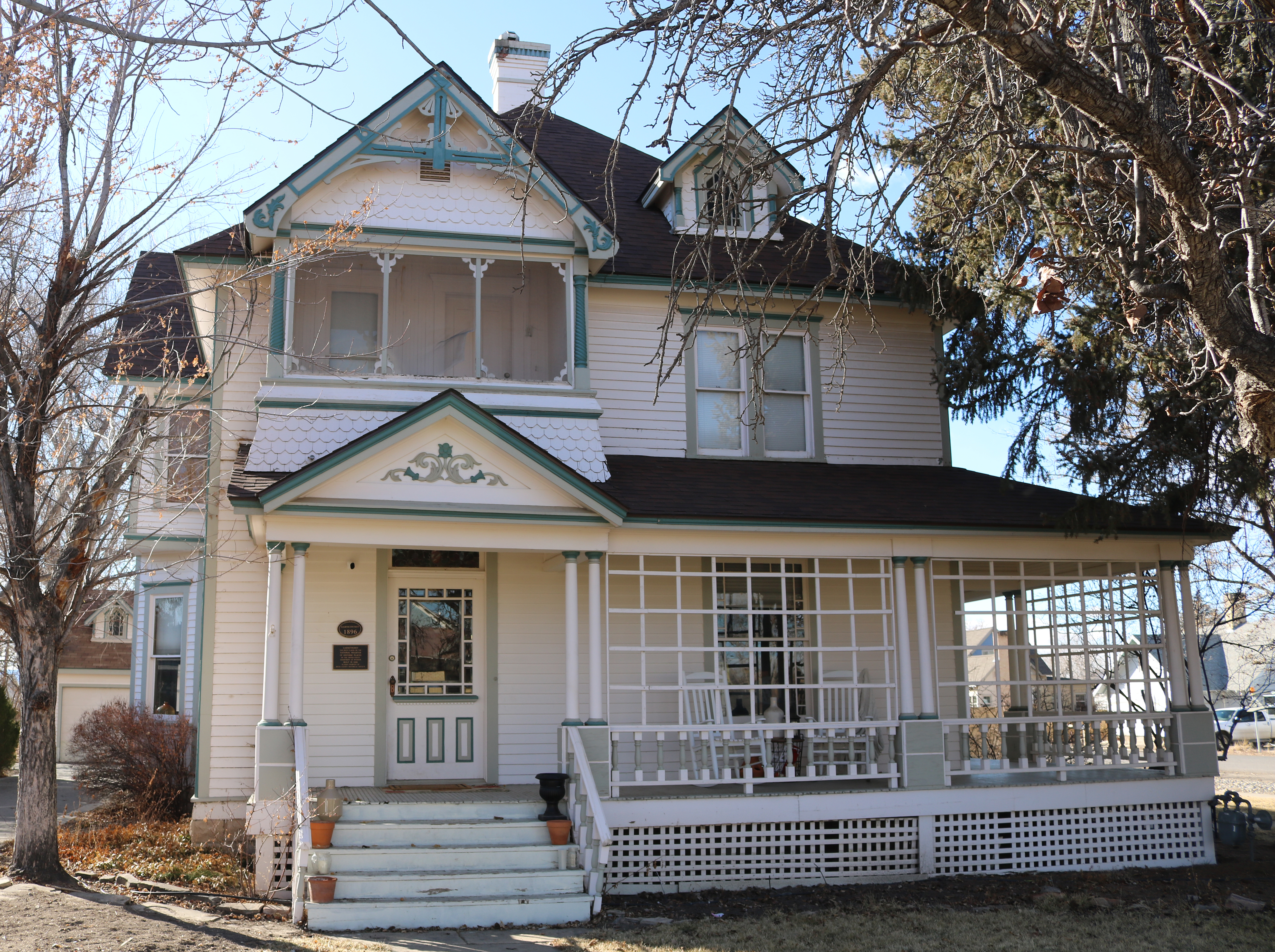 Garnethurst, a house located at 509 Leon Street in Delta, Colorado. The property is listed on the National Register of Historic Places. 5DT988